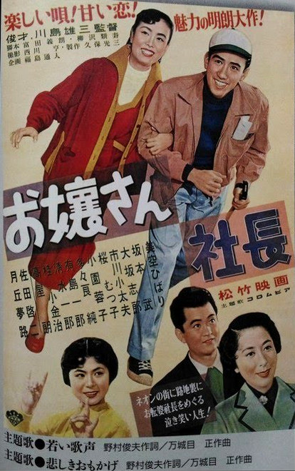 Movie poster for 1953 Japanese movie Ojōsan shachō (お嬢さん社長, lit. "Madame Company President").